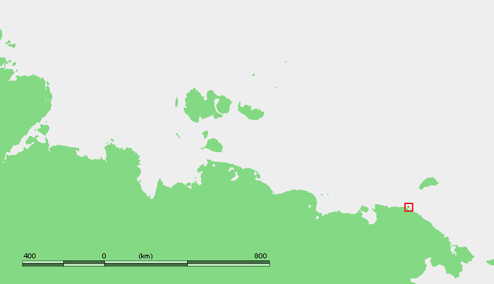 location map